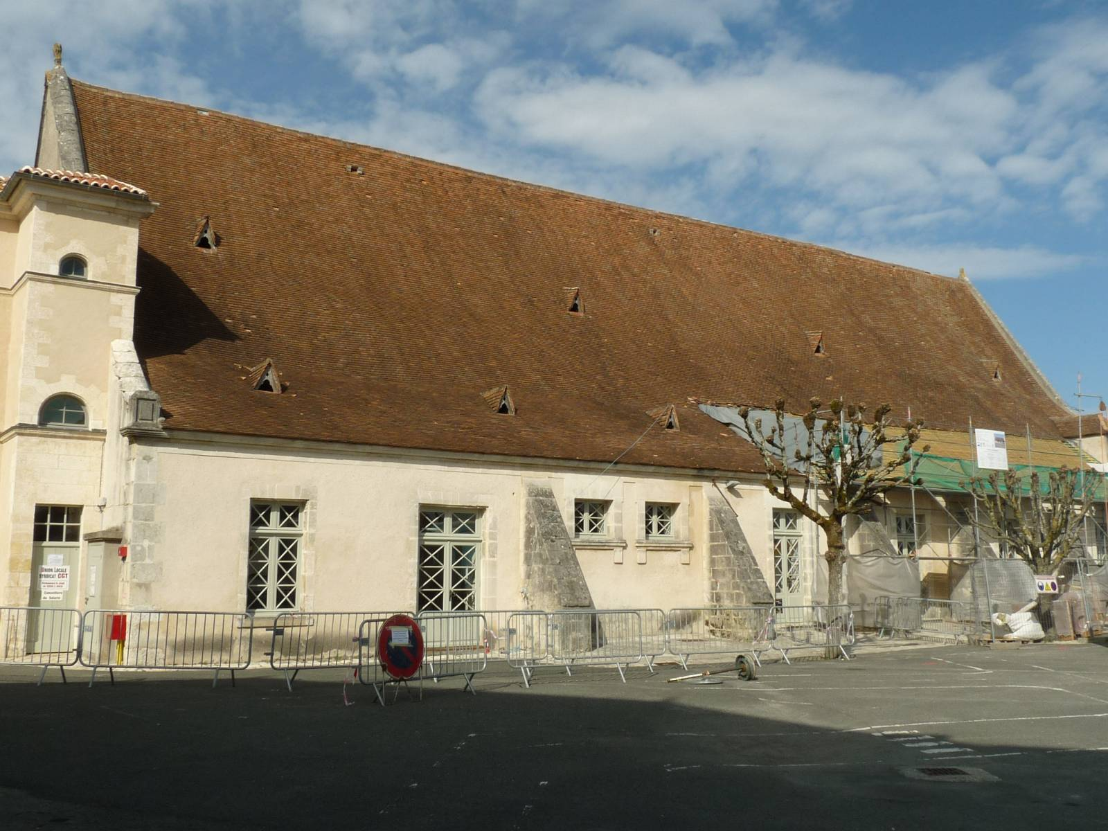 theater of the castle of Barbezieux, Charente, SW France